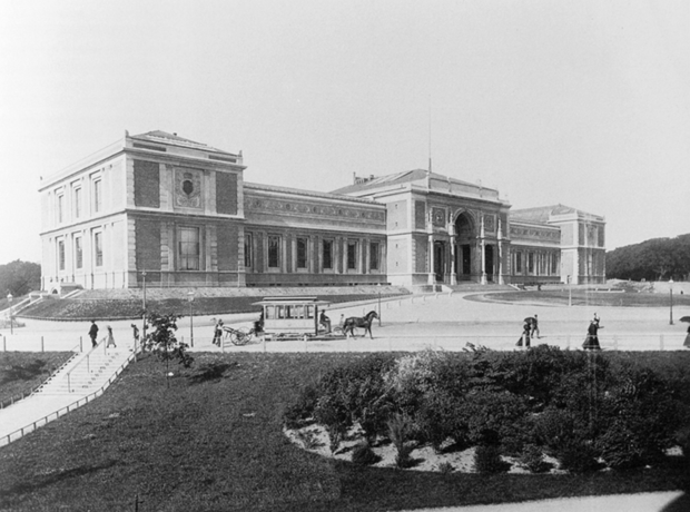 Kunstmuseet i København - now Statens Museum for Kunst - in Copenhagen, Denmark